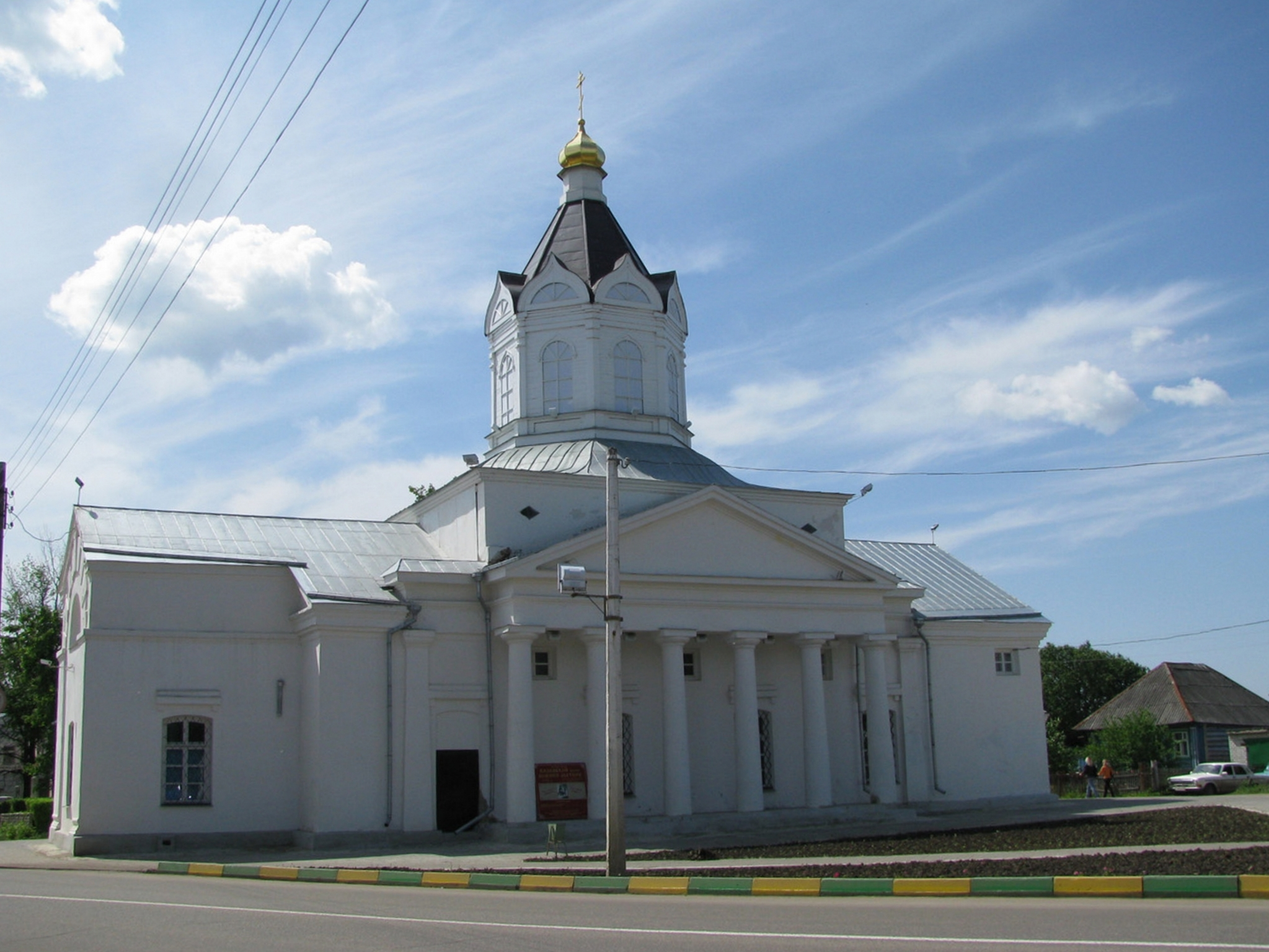 Church